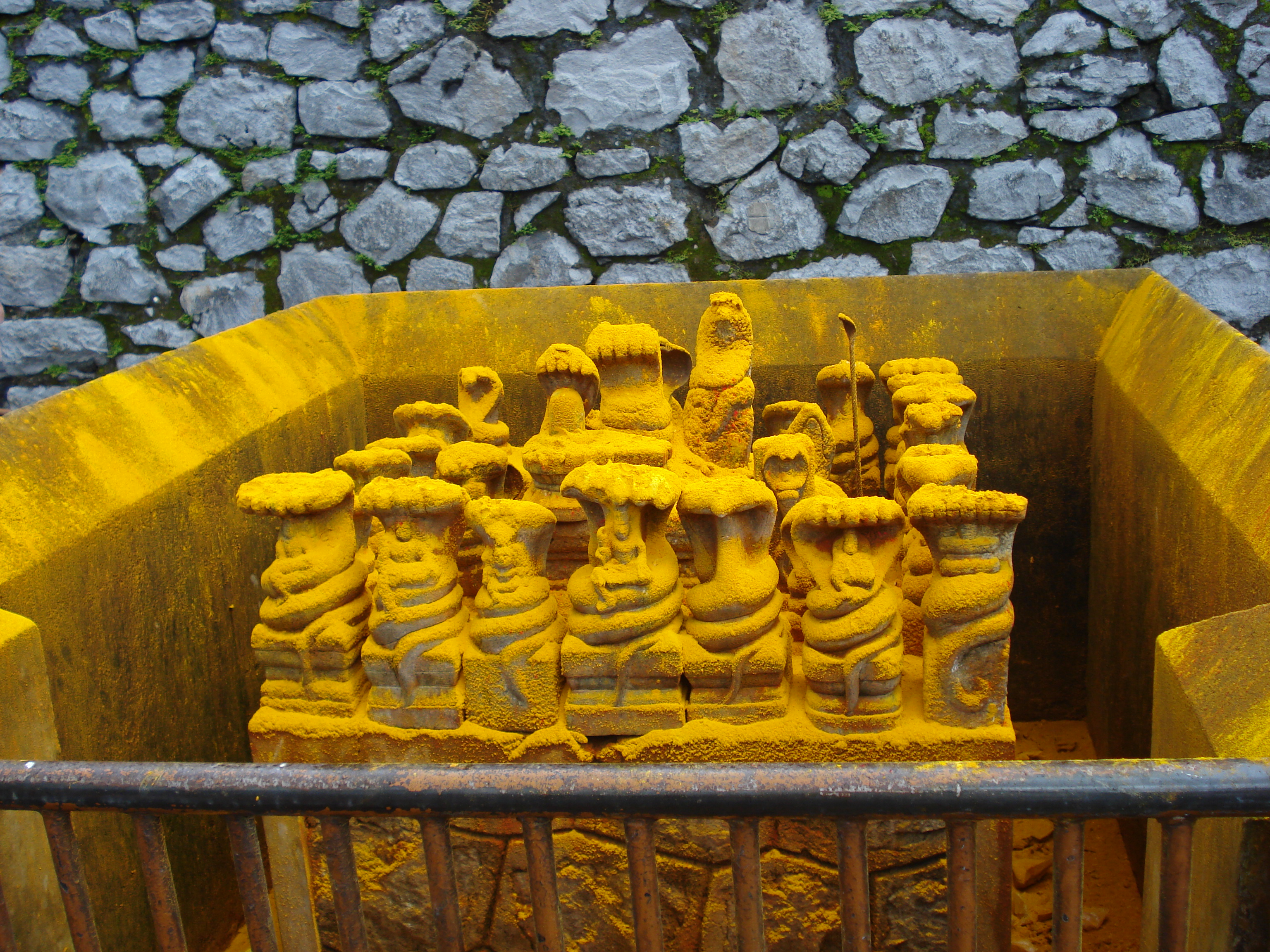 Nagarajav Shrine at Sabarimala